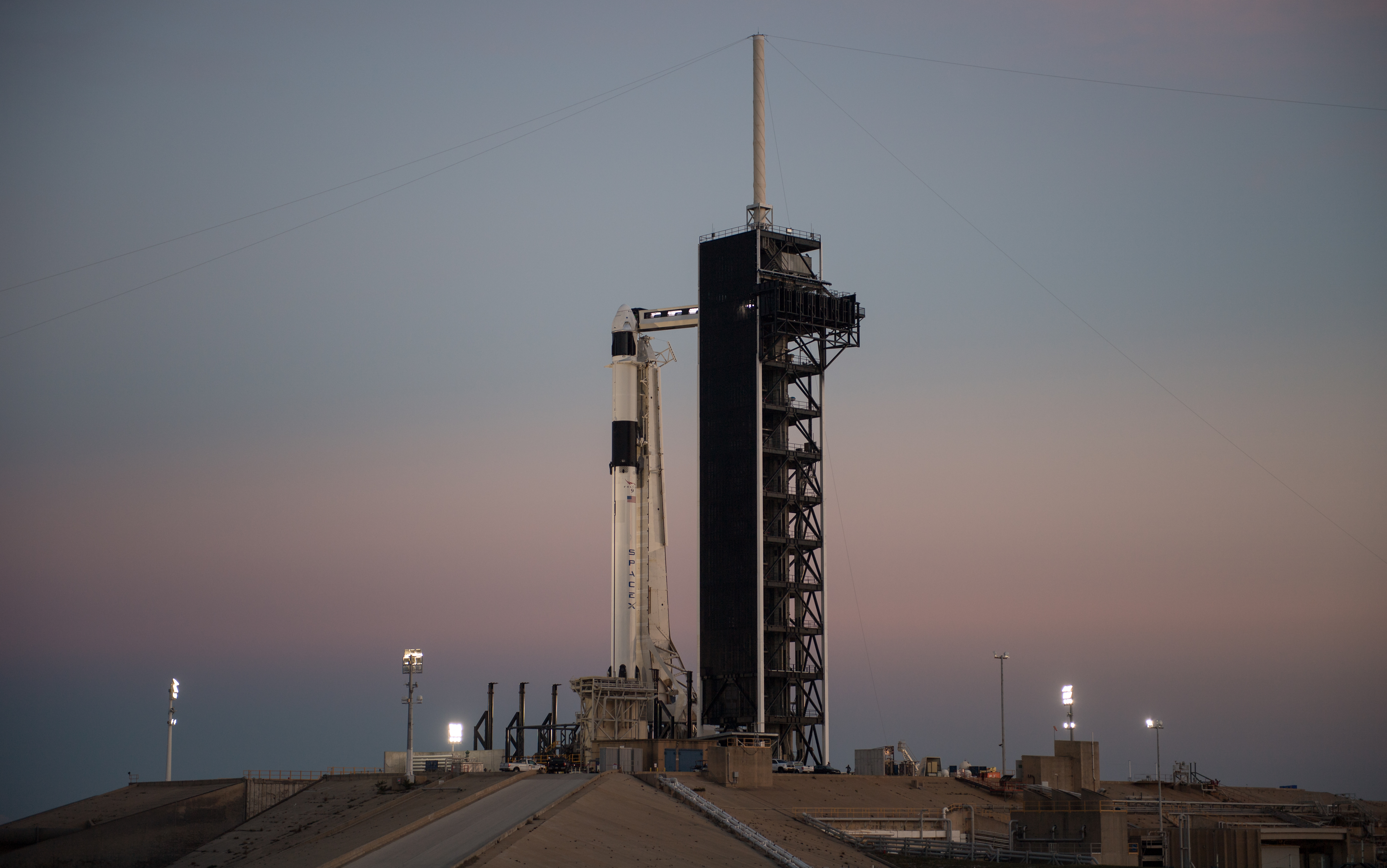 A SpaceX Falcon 9 rocket with the company's Crew Dragon spacecraft onboard is seen after being raised into a vertical position on the launch pad at Launch Complex 39A as preparations continue for the Demo-1 mission, Feb. 28, 2019 at the Kennedy Space Center in Florida. The Demo-1 mission will be the first launch of a commercially built and operated American spacecraft and space system designed for humans as part of NASA's Commercial Crew Program. The mission, currently targeted for a 2:49am launch on March 2, will serve as an end-to-end test of the system's capabilities Photo Credit: (NASA/Joel Kowsky)